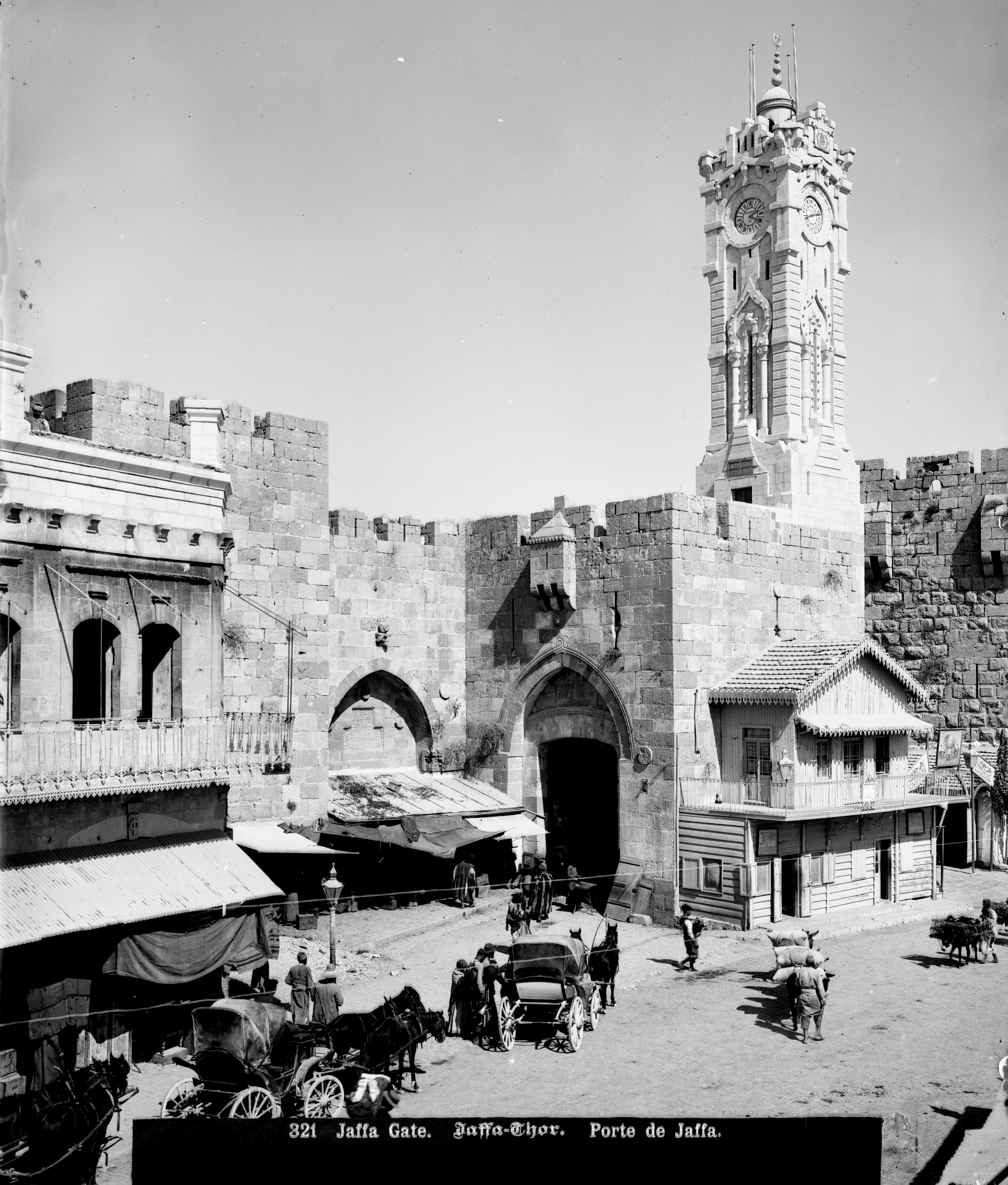 Jaffa Gate in Jerusalem, Israel (between 1908 & 1918), with buildings and Ottoman clock tower before demolition in 1945 & 1918, respectively.